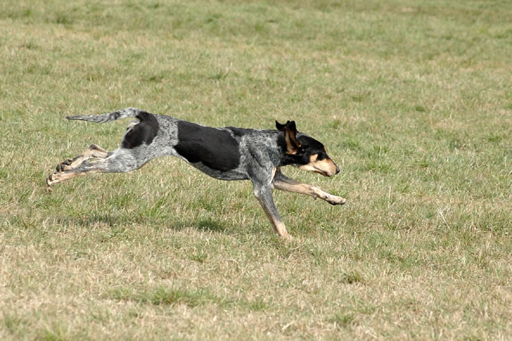 Small Blue Gascony Hound, female "Clea z Beckova" from kennel "Le Bleu Cardinalis FCI", Poland. The owner - Katarzyna Bujko